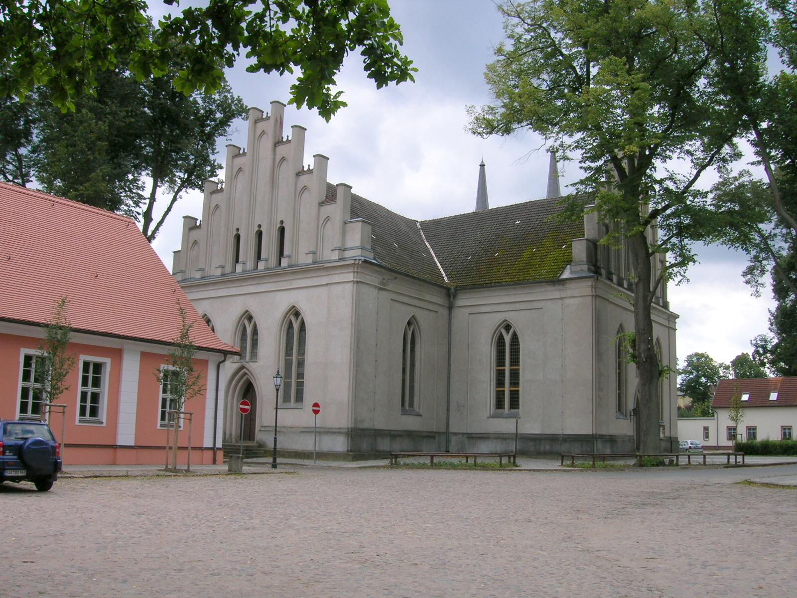 Joachimsthal in the German state Brandenburg: church Kreuzkirche, architect: Carl Friedrich Schinkel